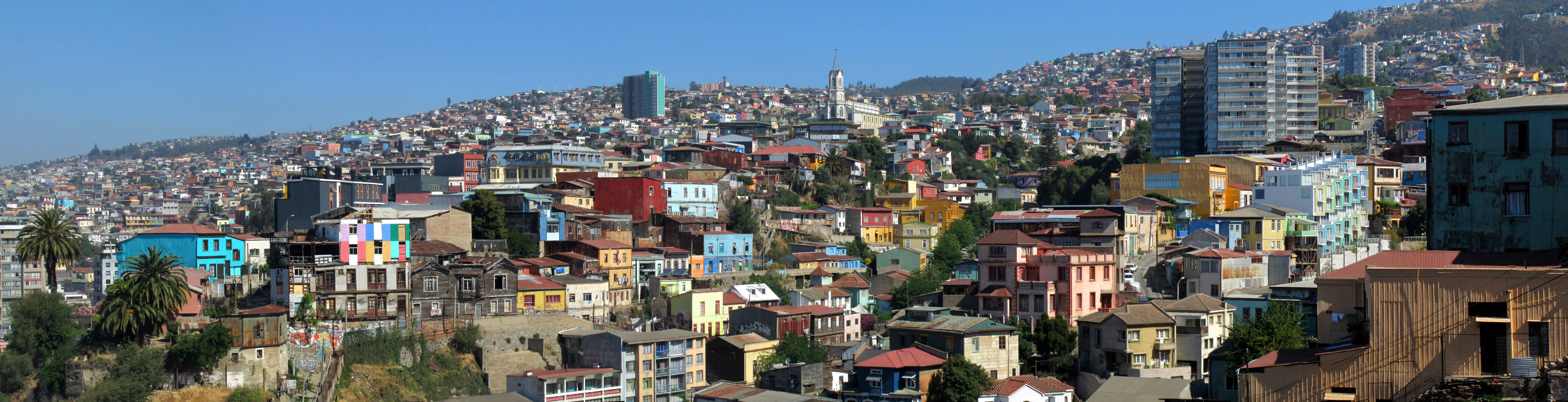 Panoramic made with six pictures taken from one of the balconies of the Cemetery Nº1 of Valparaíso, in Chile.